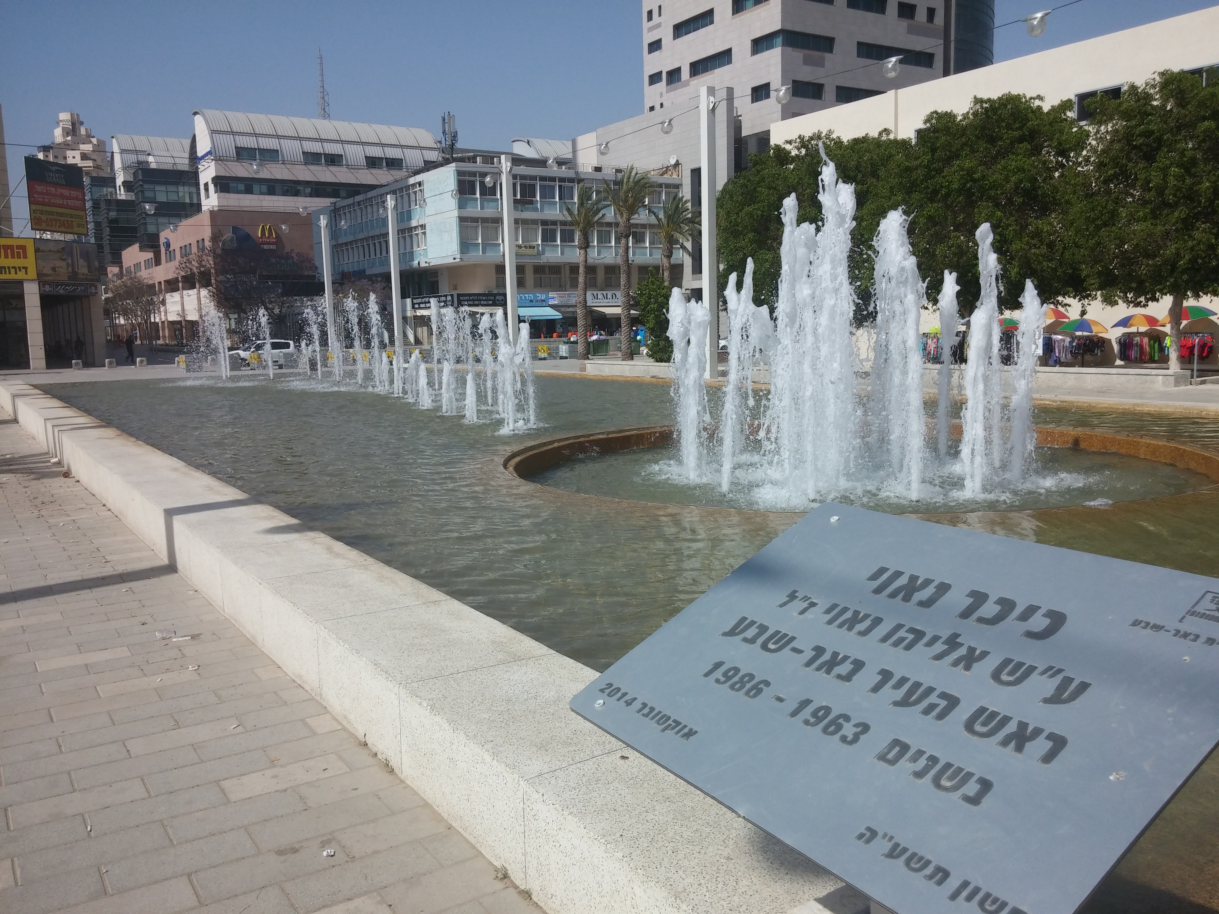 Fountain named after Eliyahu Nawi, mayor of Beersheba in 1963 - 1986, Beersheba, 2015.